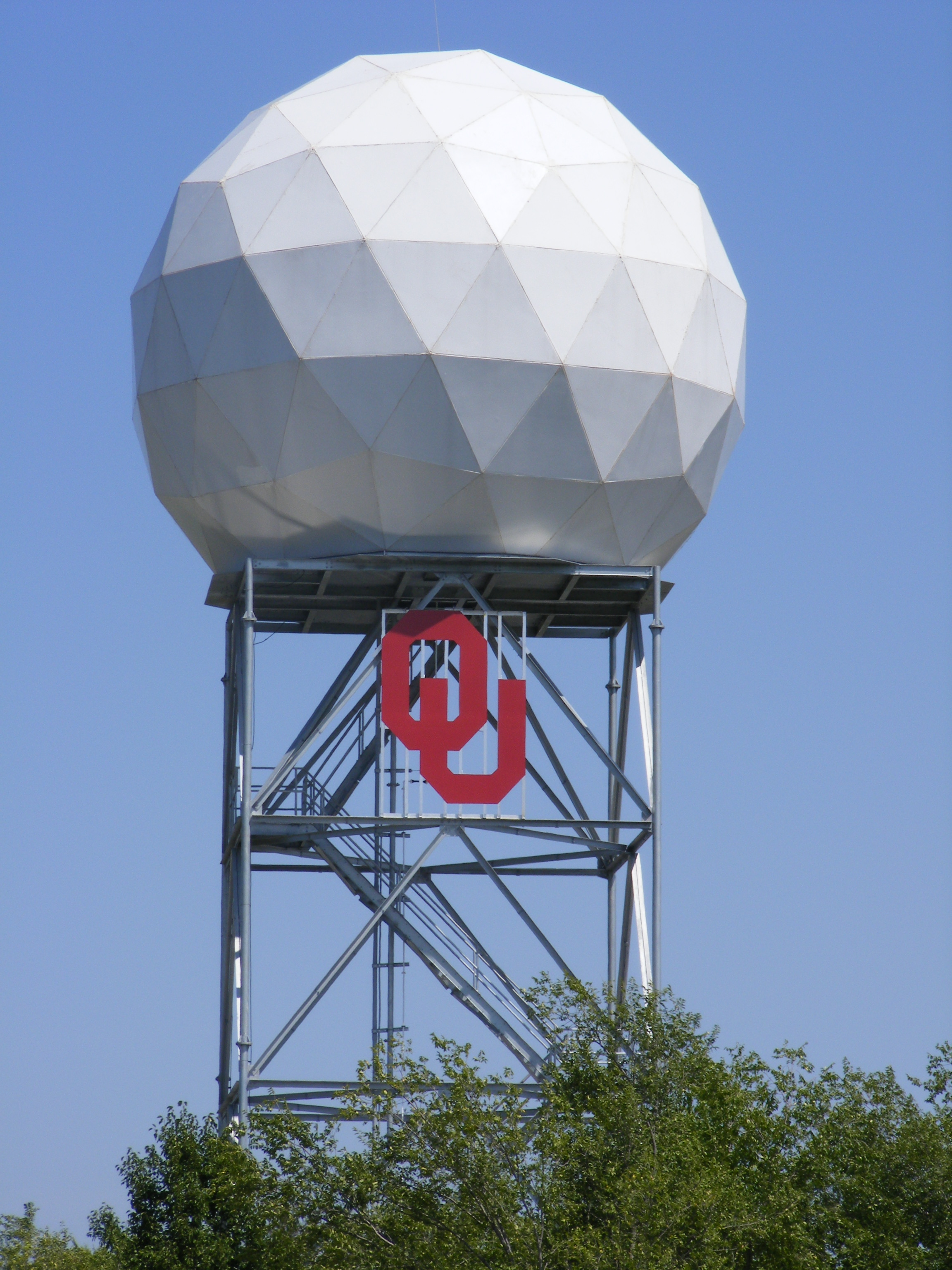 OU-PRIME radar with new OU sign